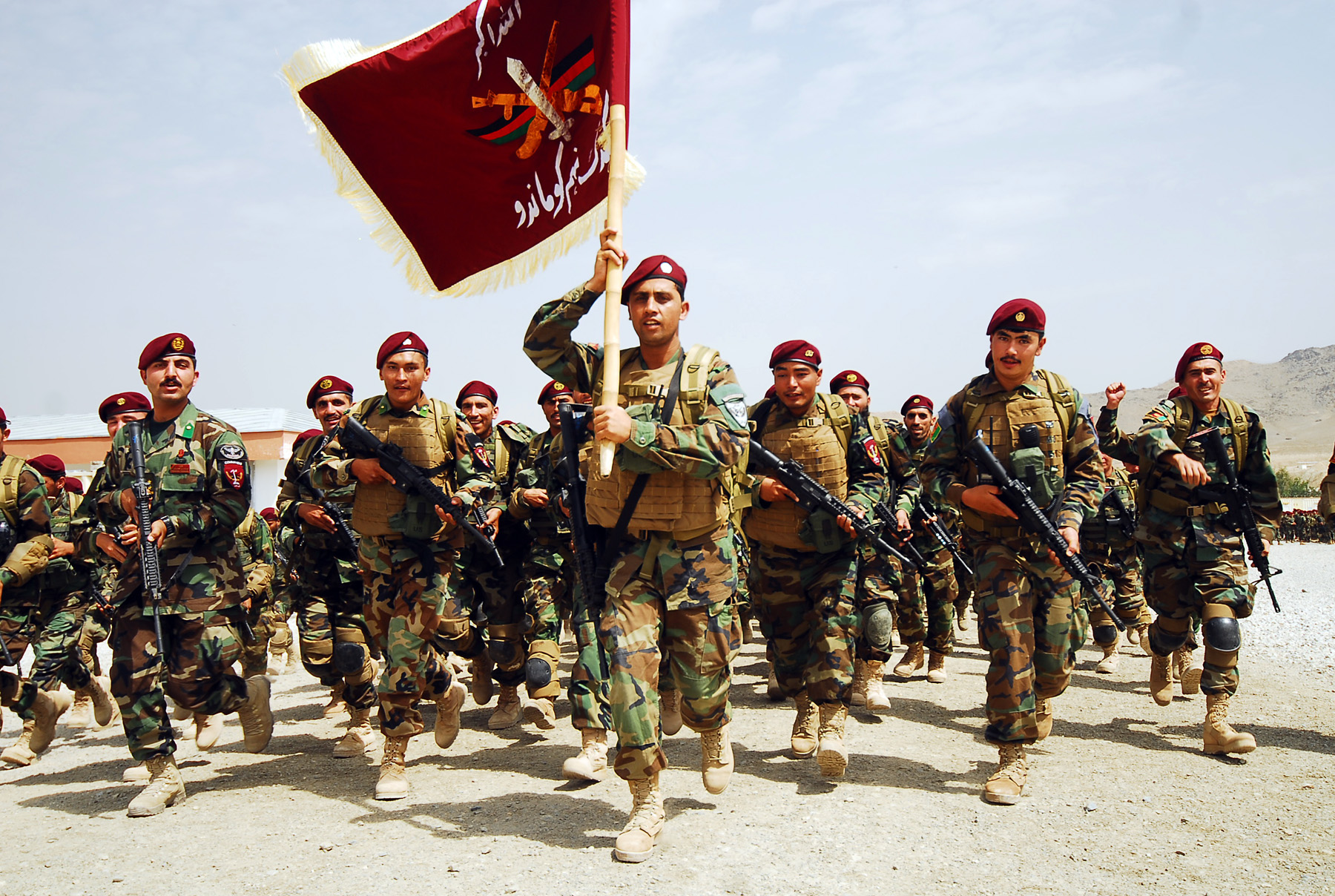 KABUL, Afghanistan (August 18, 2010) A platoon of newly graduated Afghan National Army (ANA) Commandos quick-time march following a graduation ceremony. More than 900 Afghan soldiers completed the extensive course to graduate and wear the red beret of the ANA Commandos. (US Navy photo by Chief Mass Communication Specialist F. Julian Carroll)